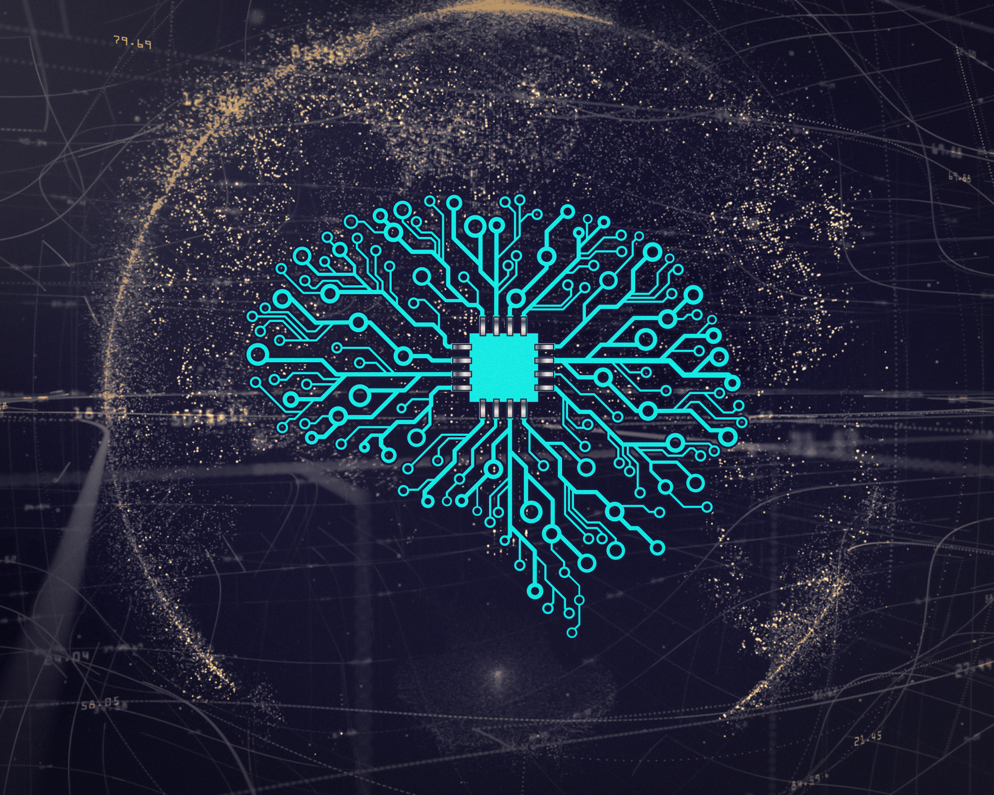 Common Visualization of Artificial Neural Network with Chip